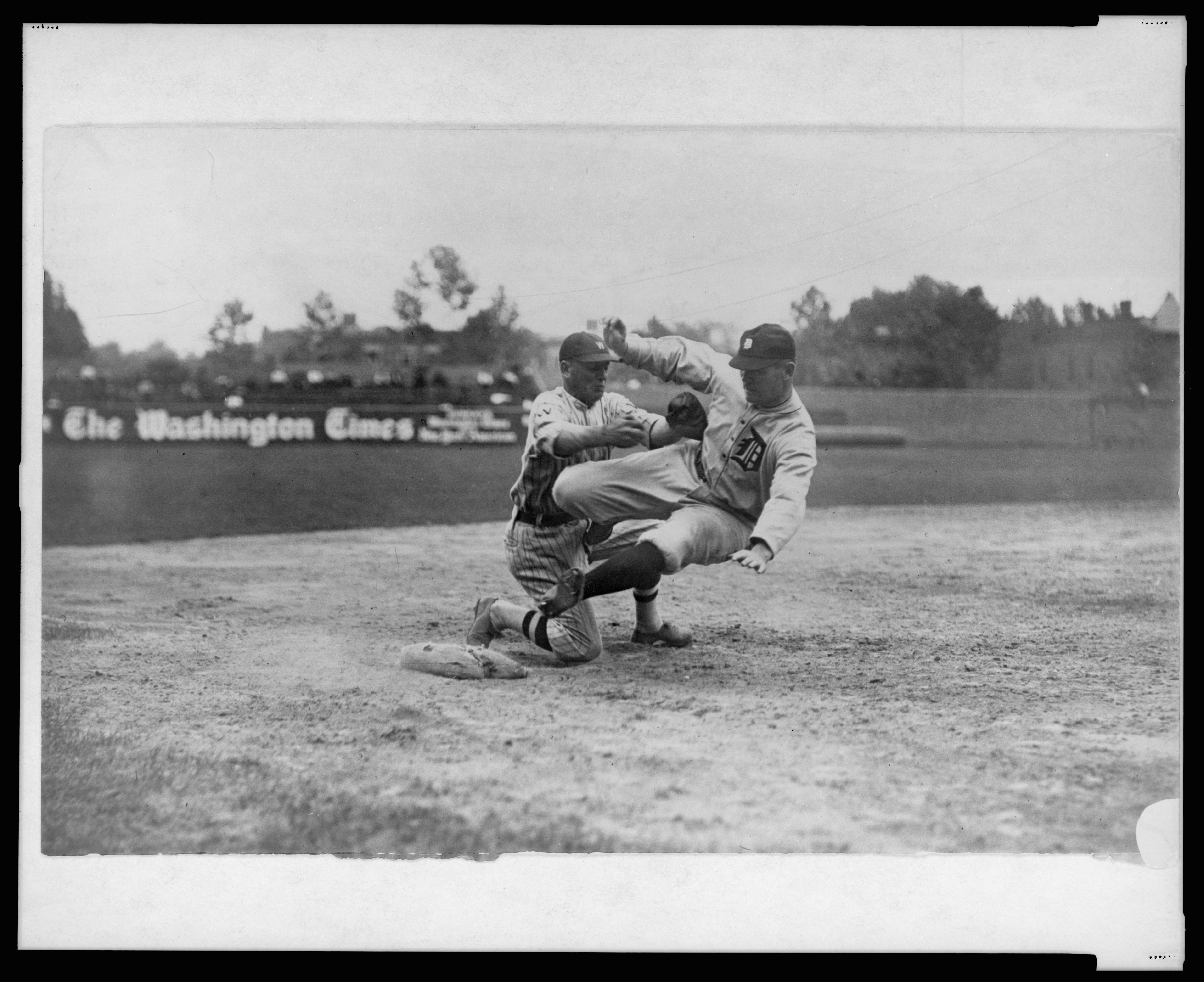 Title: Detroit Tigers' Harry Heilmann, in a poorly executed slide, is tagged out by Washington Senators' third baseman Howard Shanks. Senators beat the Tigers 6-2 Abstract/medium: 1 photographic print.